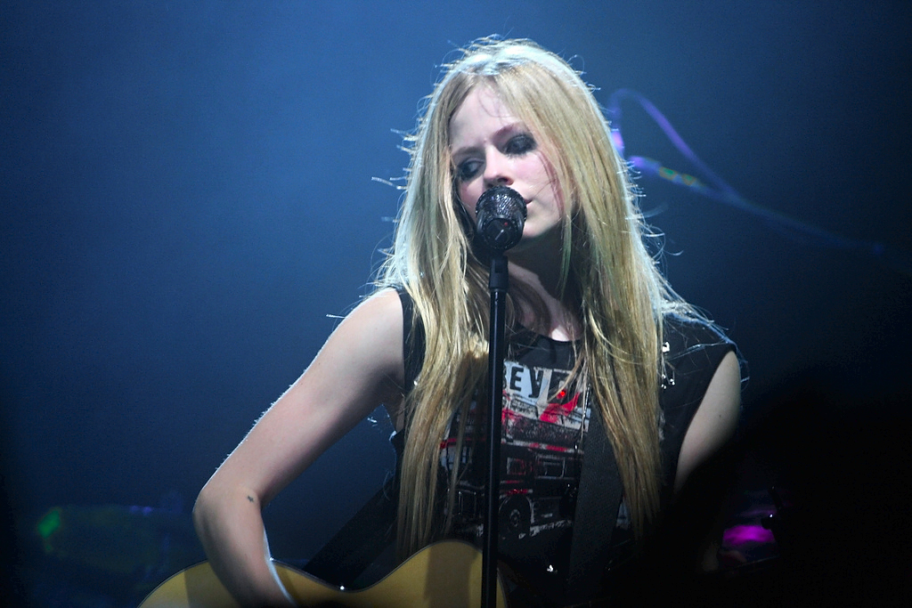 Avril Lavigne singing and playing acoustic guitar, during the Italy leg of her Black Star Tour on September 10, 2011. Photographed on a Canon EOS 1000D.